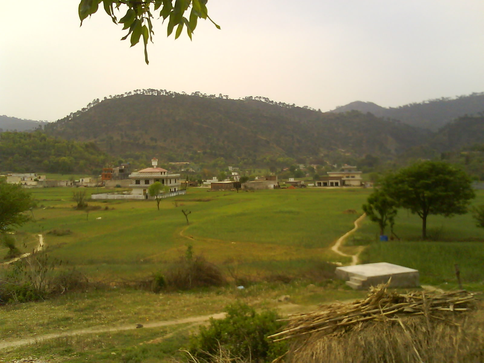 File:Jandala (Samahni Valley) AJK